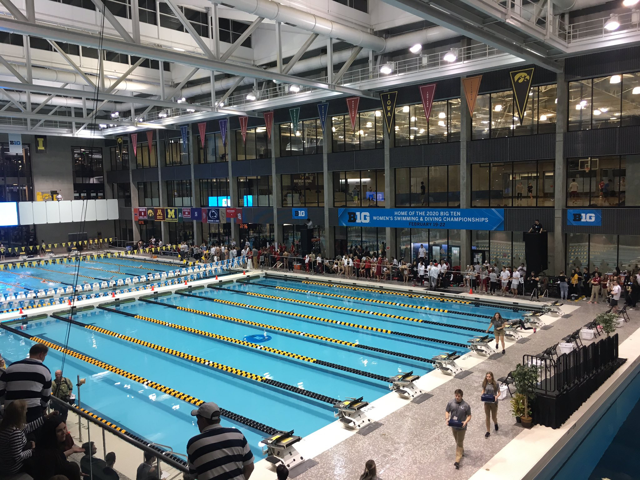 CRWC during the 2020 Women's Big Ten Championships.